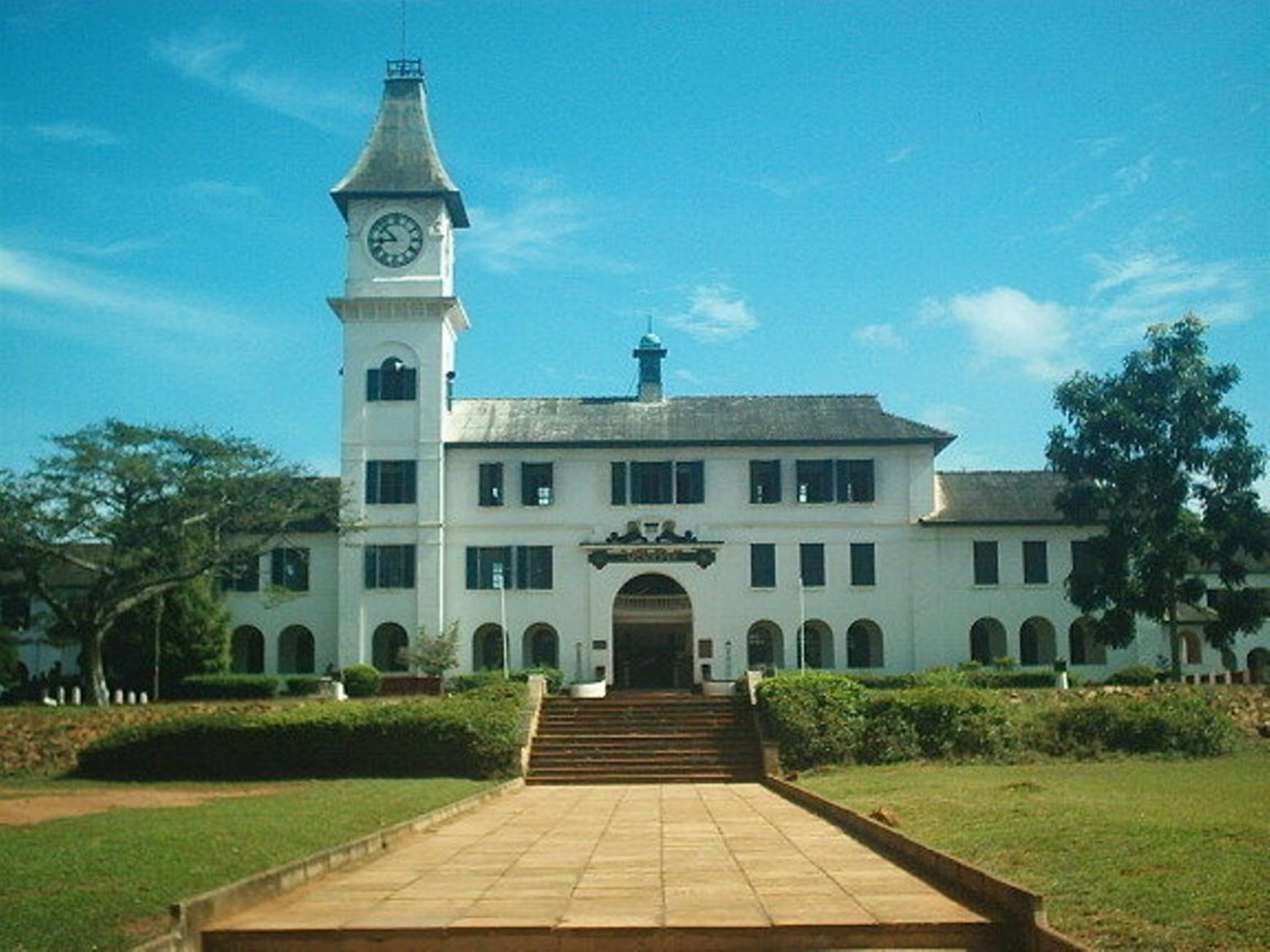 Achimota School